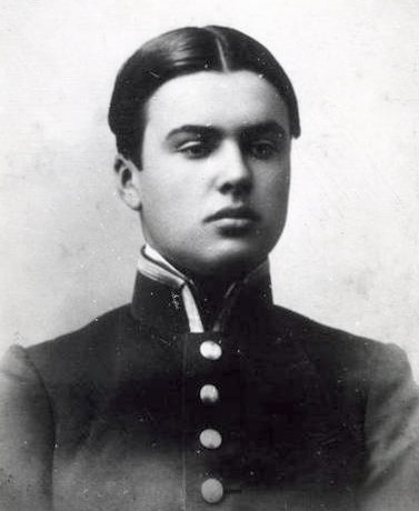 Sergey Lazo, a Communist leader in the October 1917 Revolution in the Russian Far East.